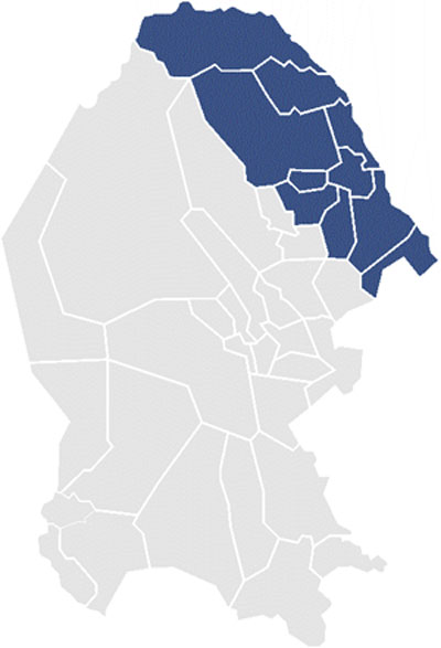 Map of the First Federal Electoral District of the State of Coahuila, México.